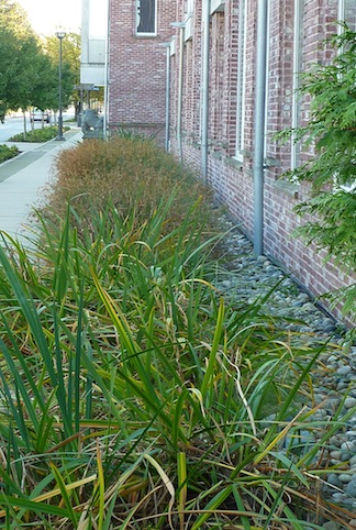 CK Choi Building at University of British Columbia. Image of bioswayles at building's edge